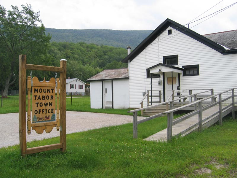 Photograph of Mount Tabor, Vermont